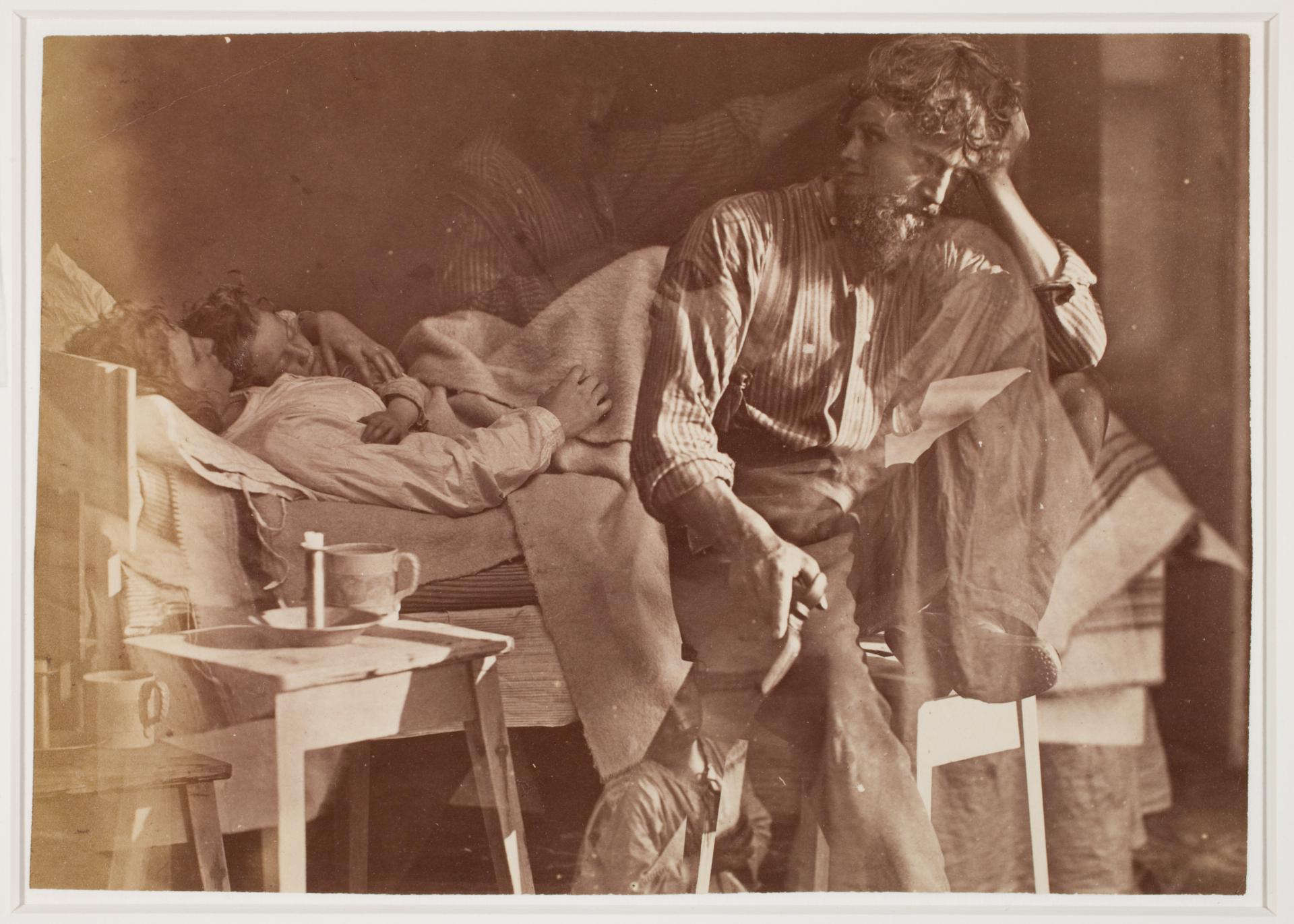 "Hard Times". Albumen print. 13.9 x 19.9 cm. George Eastman House. GEH NEG: 24139